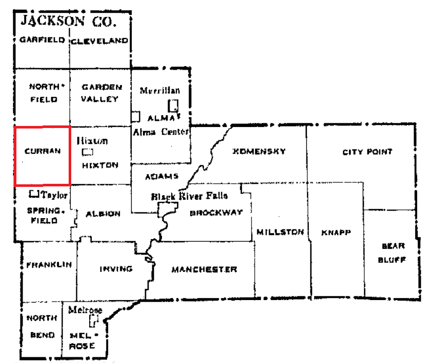 Map showing location of town of Curran in Jackson County, Wisconsin, United States.